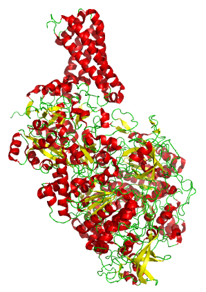 Structure of nitrate reductase A, NarGHI, from Escherichia coli